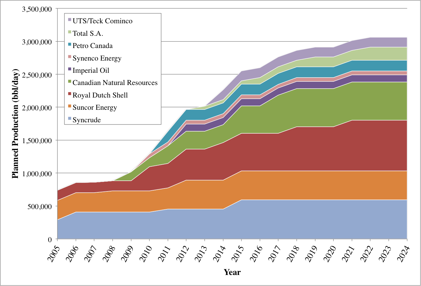 A chart of the planned increases in oil production from mining operations in the Athabasca Oil Sands. Made with the data in the table at added by Recreated in Excel 2011 and exported to PNG. Original version created by